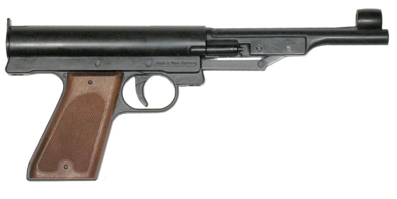 Air pistol cal .177, self shot photograph, June 2006 Record LP 1 / LP 2 (